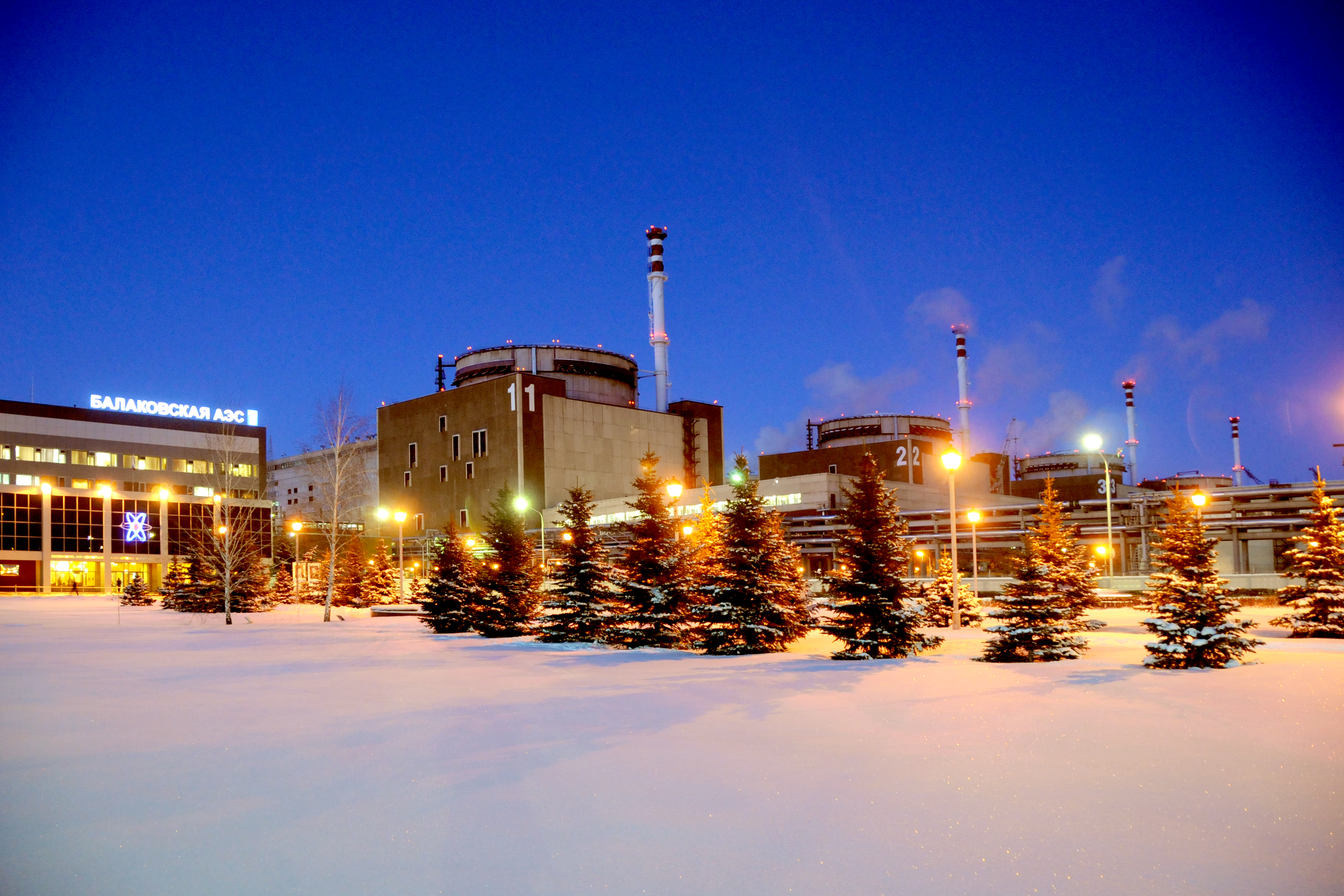 Unit one to four of the Balakovo Nuclear Power Plant in winter